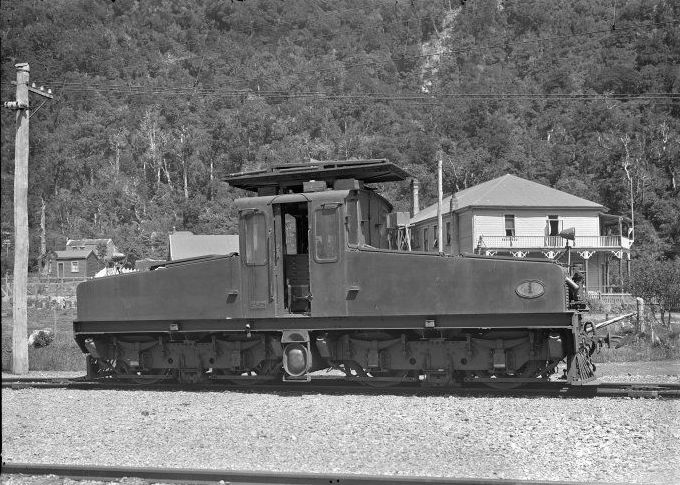 E Class battery-electric locomotive NZ. Part of the A P Godber collection Alexander Turnbull Library.